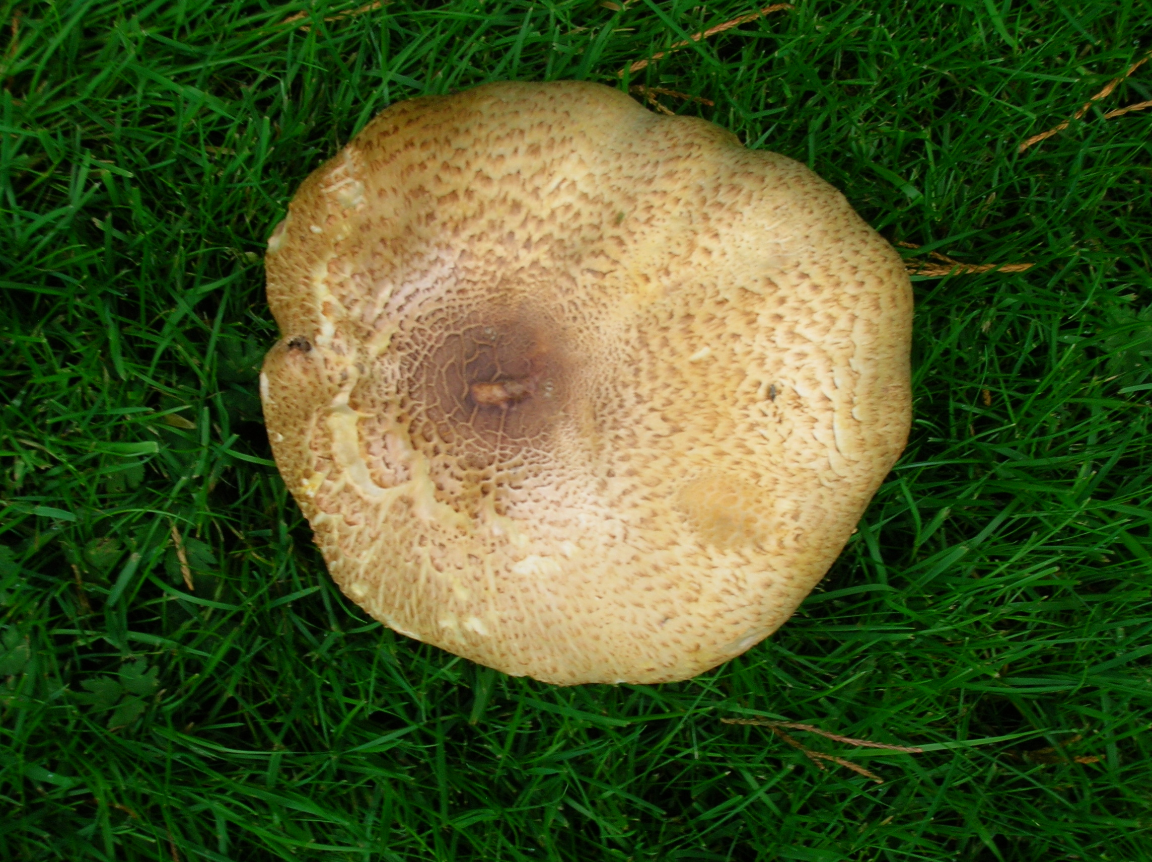 The Prince Mushroom under a Copper Beech (Fagus sylvatica) at Dumfries House, Ayrshire, Scotland.